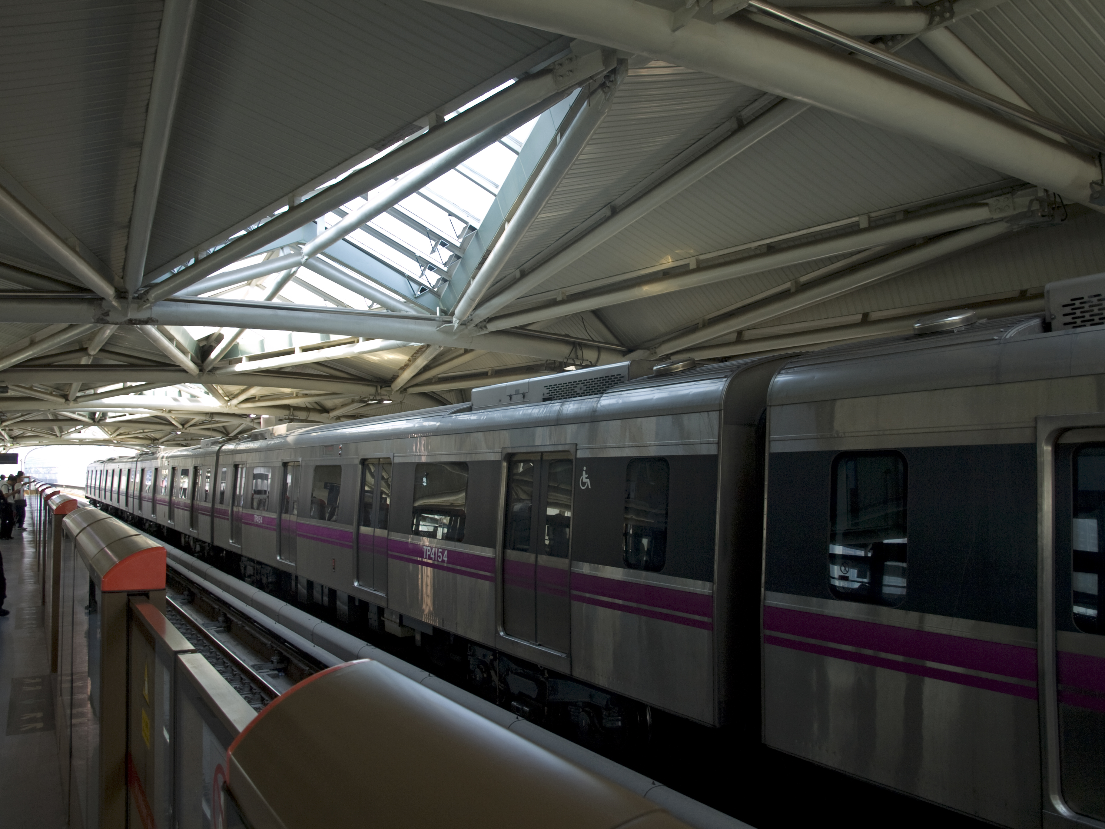 Beiyuanlu North station, Beijing Subway